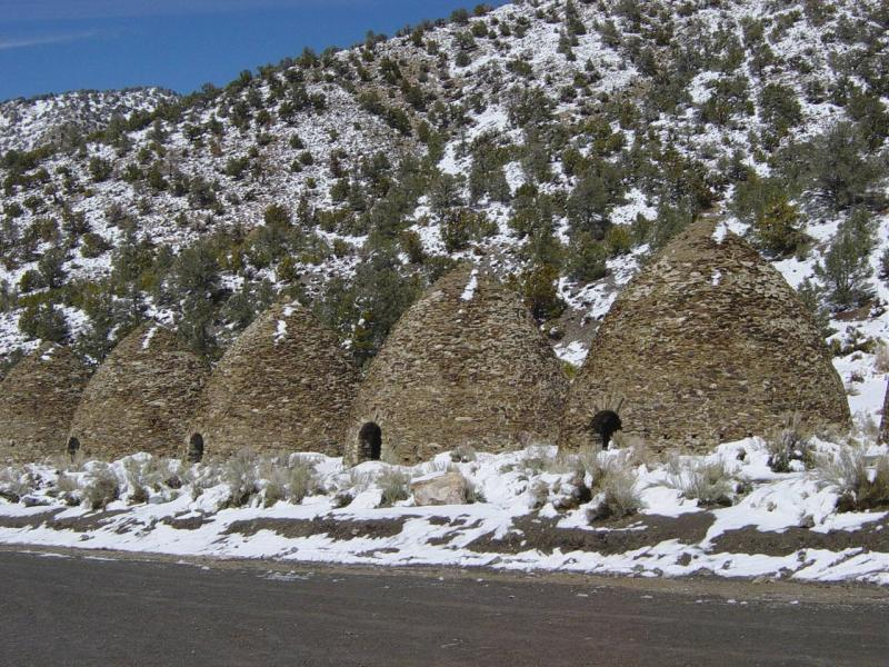 Wildrose Charcoal Kilns in Death Valley, California. The ten kilns (25 feet, or 7.6 m, high) were used to make charcoal from wood to smelt lead and silver from nearby mines. Built in 1877, they were only in operation for 2 or 3 years. [1]